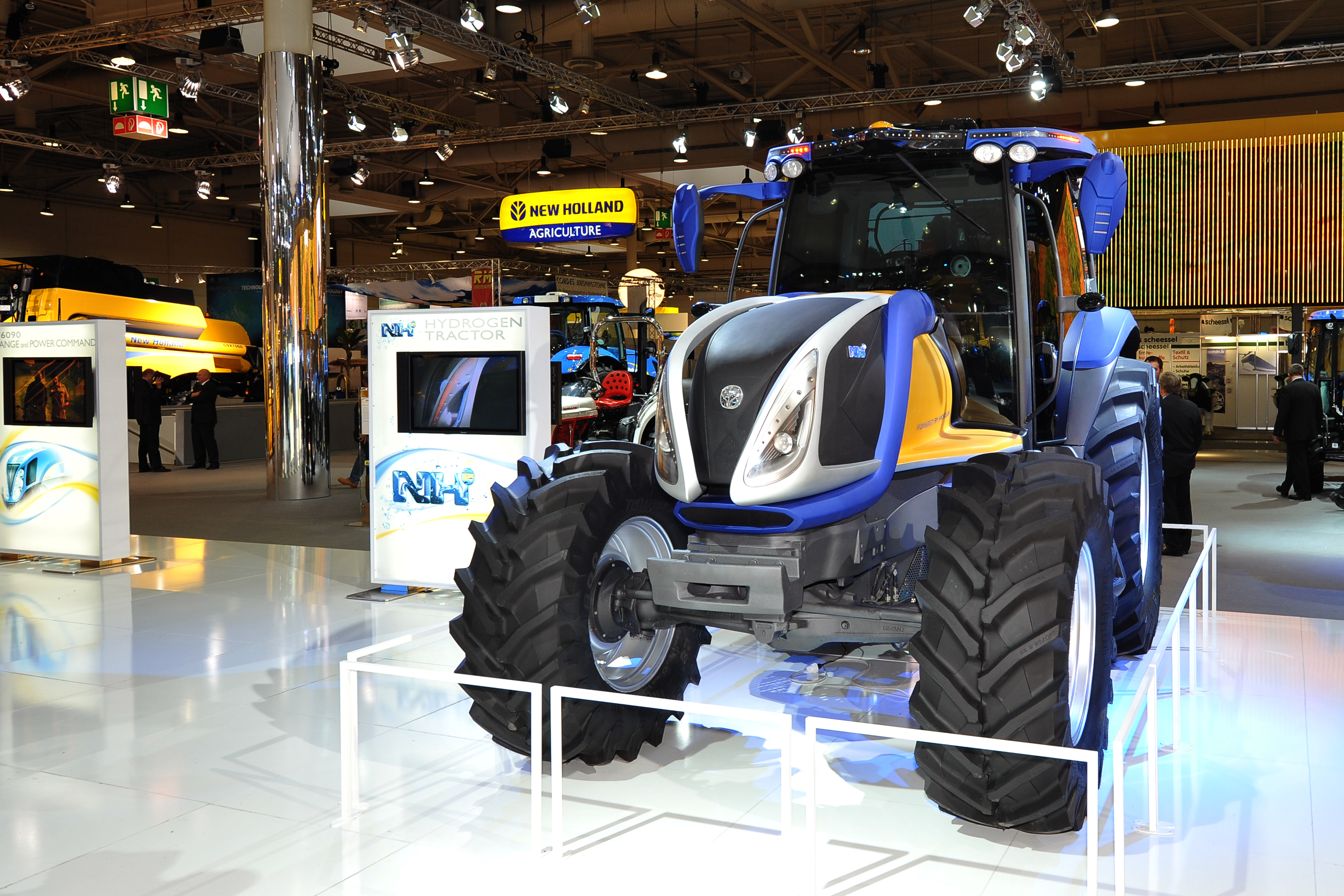 New Holland NH2 Hydrogen tractor presented on Agritechnica 2009